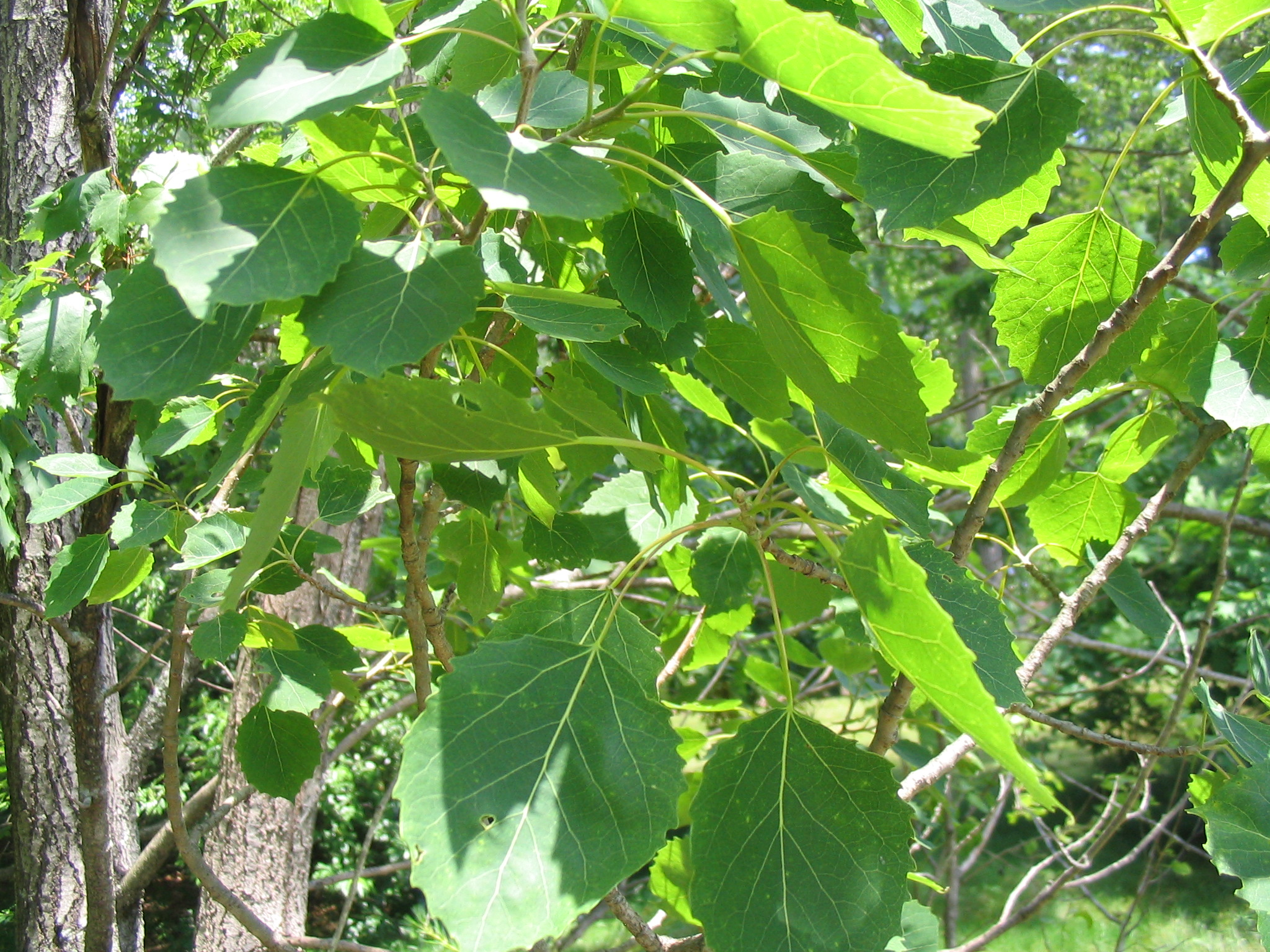 Leaves of Bigtooth Aspen (Populus grandidentata)